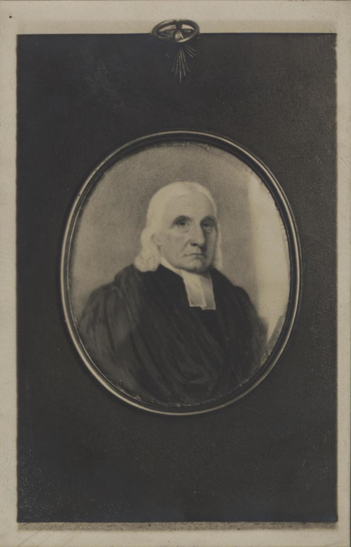 A portrait from the Welsh Portrait Collection at the National Library of Wales. Depicted person: Daniel Rowland – Welsh Calvinistic Methodist leader